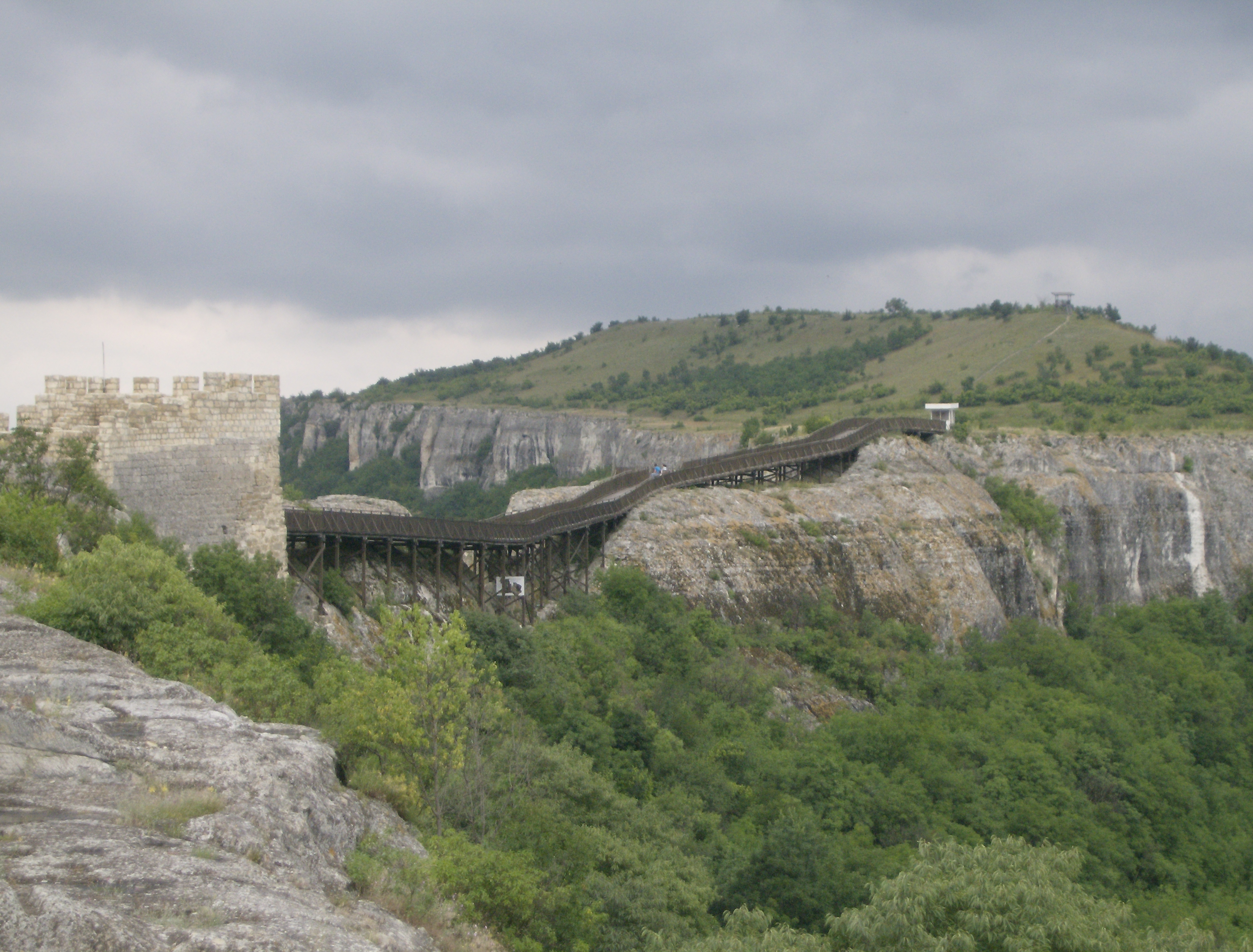 Ovech Fortress